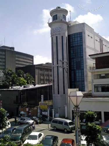 The Asian Institute of Maritime Studies College of Maritime Education Bldg.